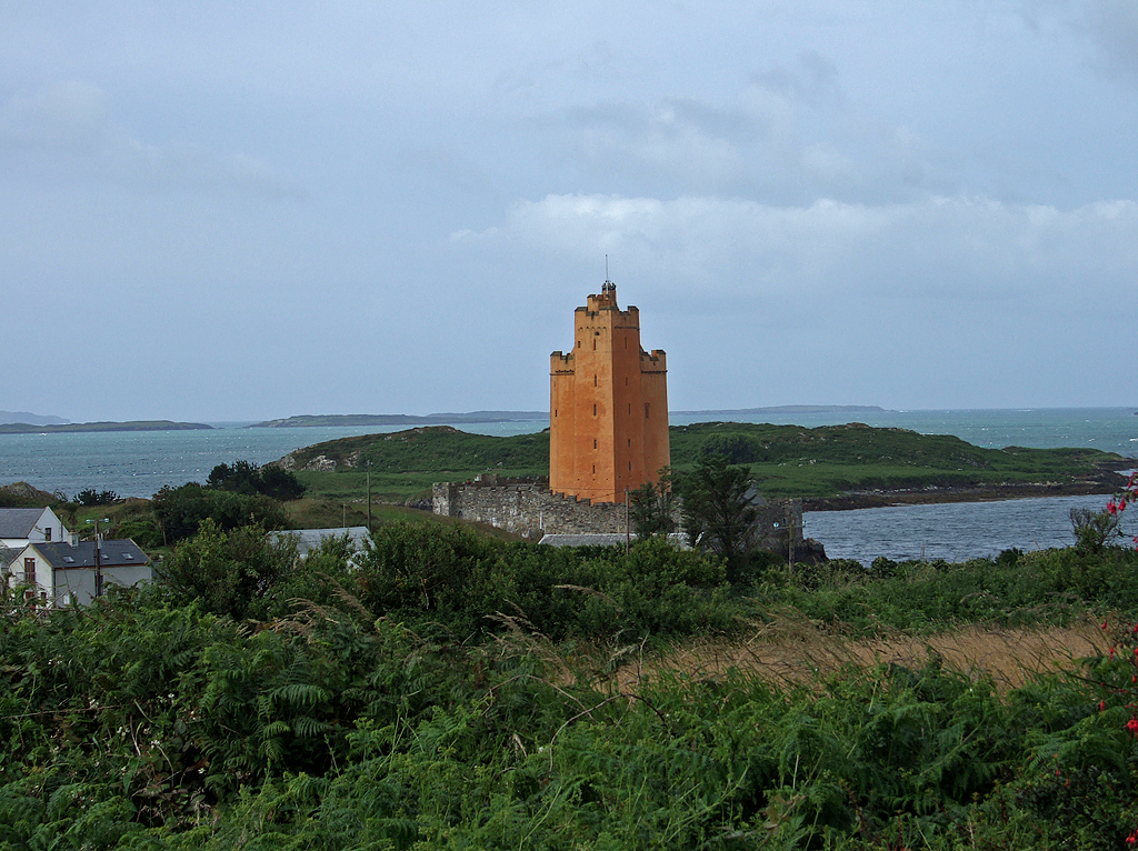 Kilcoe Castle Built ca. 1450 by the Clan Dermod MacCarthy, it has always been one of the best preserved castles in West Cork. In more recent times, the castle has been extensively restored by its present owners actor Jeremy Irons and his actress wife Sinéad Cusack. The controversial colour wash that adorns the castle has apparently been thoroughly researched, and is considered authentic.